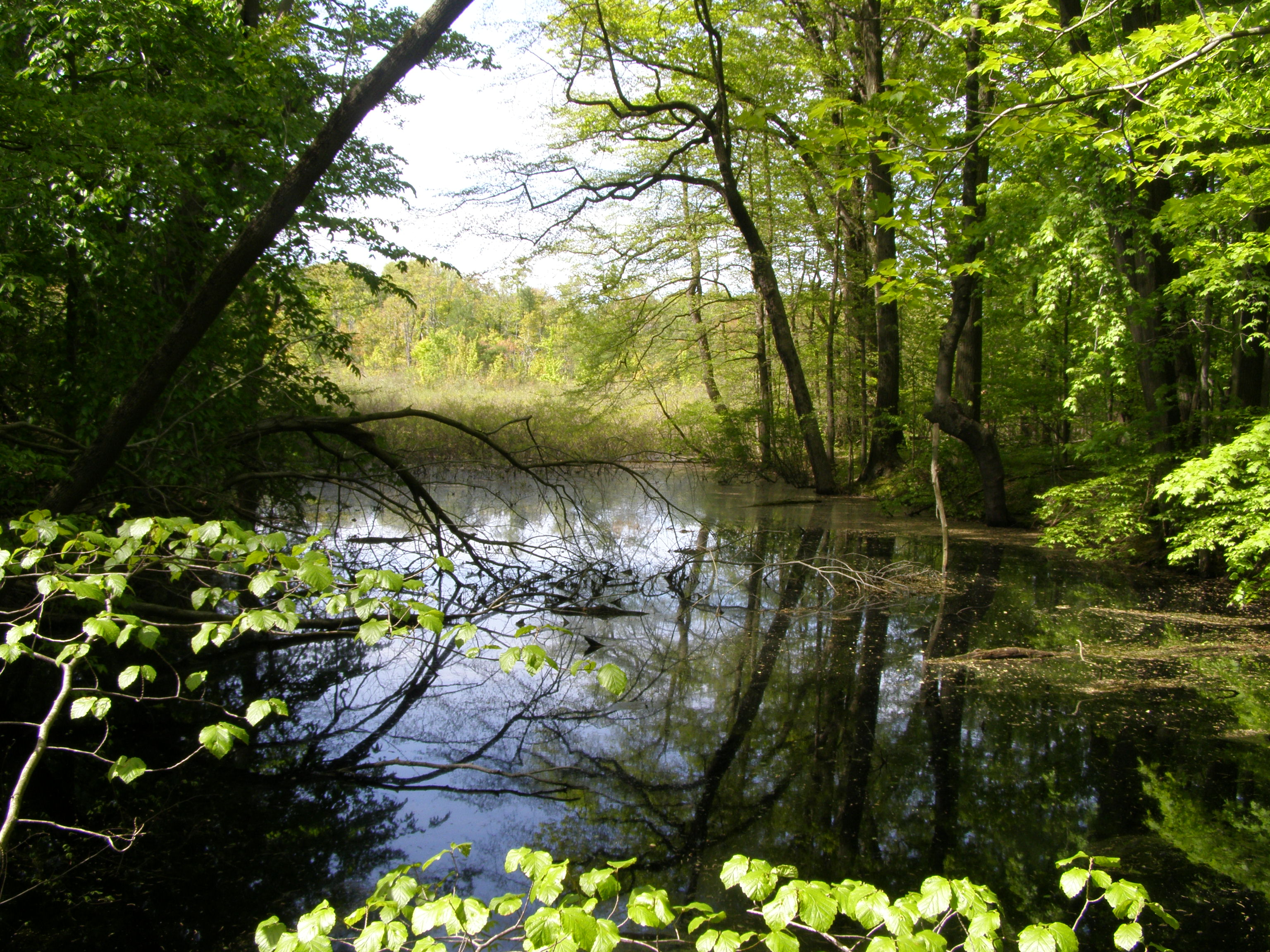 Open water on the east edge of the bog, seen from a bridge along the Uplands Trail.